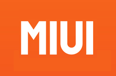 Original MIUI logo by Xiaomi Tech